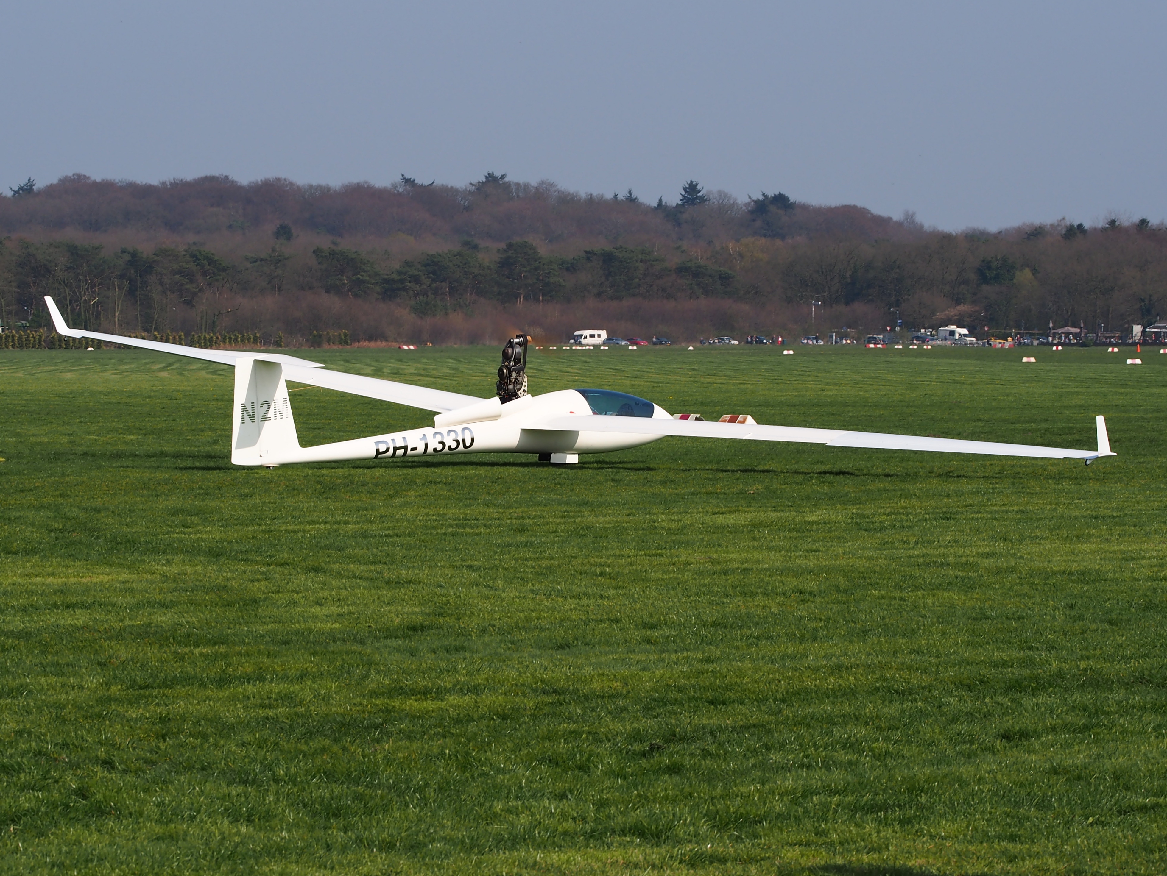 Photographed at Hilversum Airport (ICAO EHHV), The Netherlands.